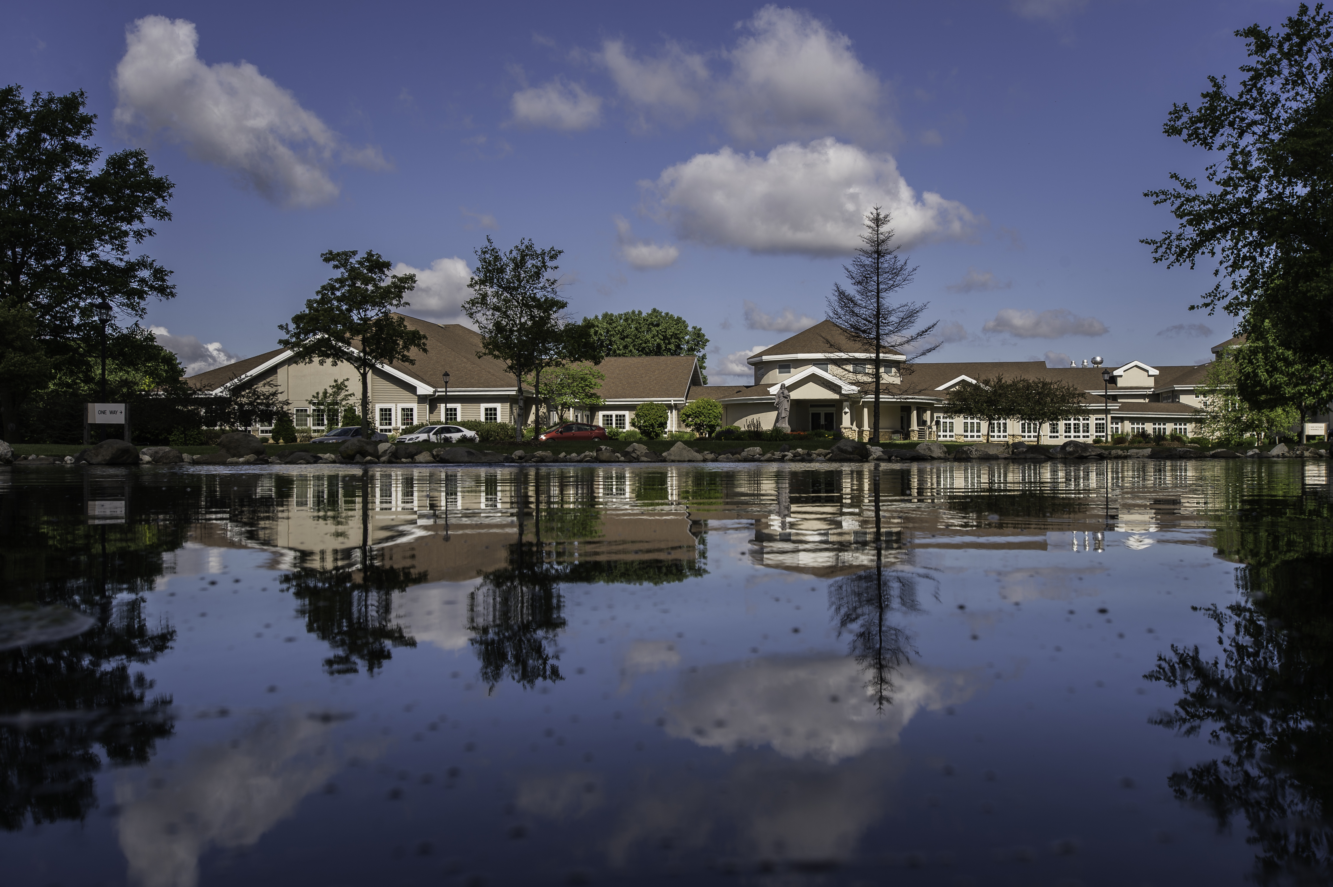 Exterior of motherhouse pond and building in Fond du Lac, WI